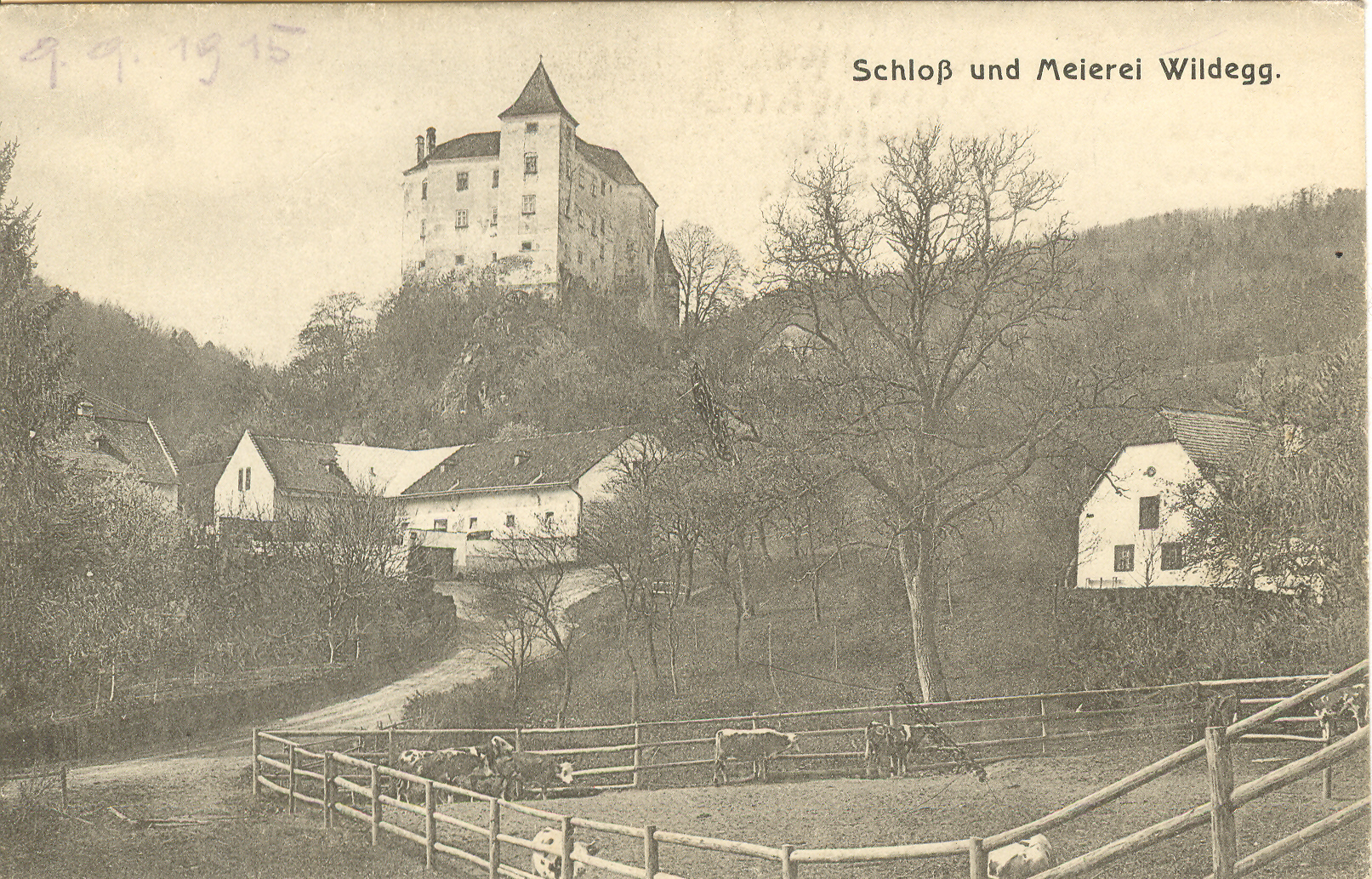 Castle Wildegg in Wienerwald, a view from 1915